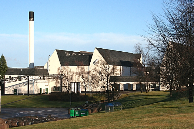 Auchroisk Distillery Some of the modern buildings at Auchroisk Distillery. Pronounce it roughly 'A-thrusk'.